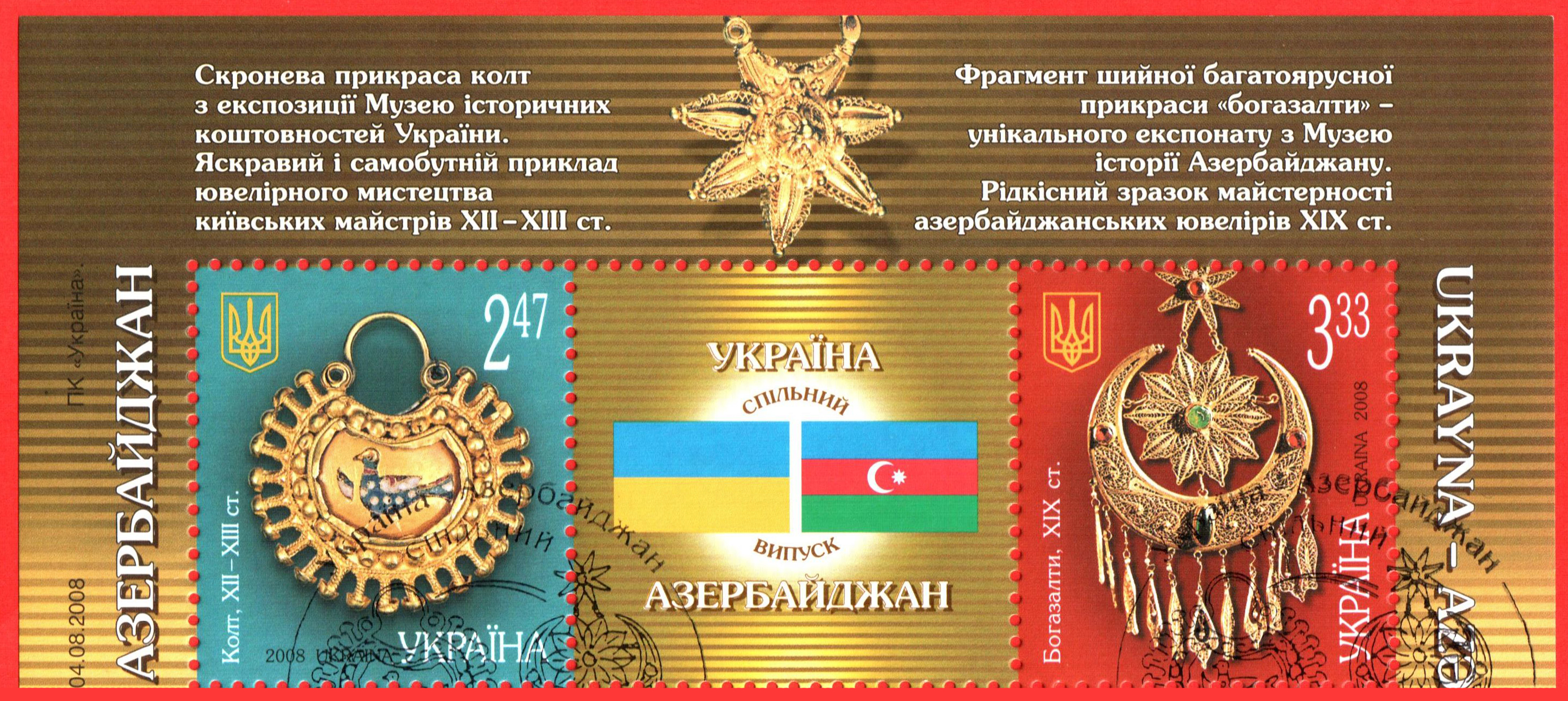 Joint issue of Ukraine and Azerbaijan stamps. Sheet of the se-tenant stamps of Ukraine (fragment), with a label and First Day cancellation, 2008. Kievan kolt, XII-XIII с., and Azerbaijan bohazalty, XIX с. (See also ).